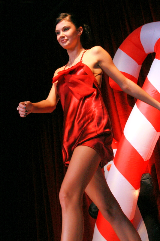 Jayde Nicole. Provided by photographer W. Andrew Powell/TheGATE.ca